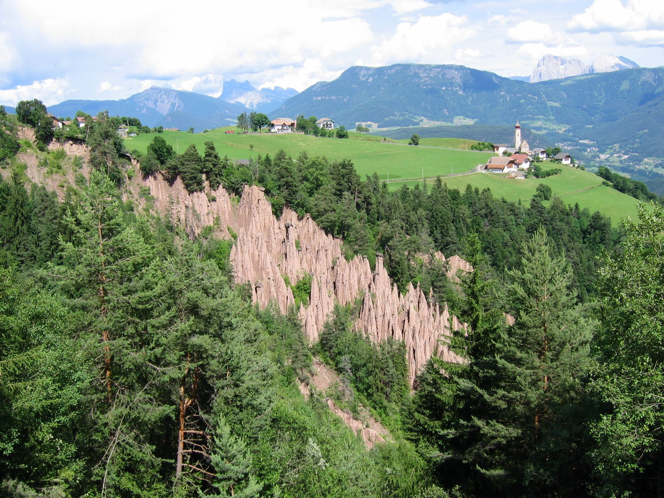 Rittner fairy chimney, South Tyrol